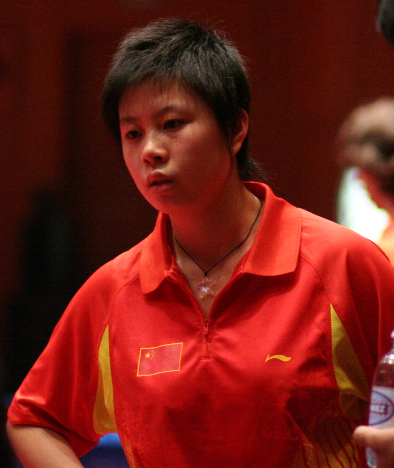 Lei Lina